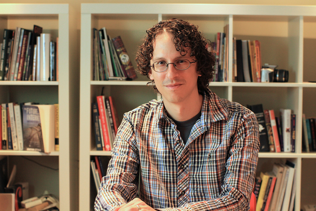 Production still of Andy Baio during his interview for Early Stage, a Video Sprint by KS12.